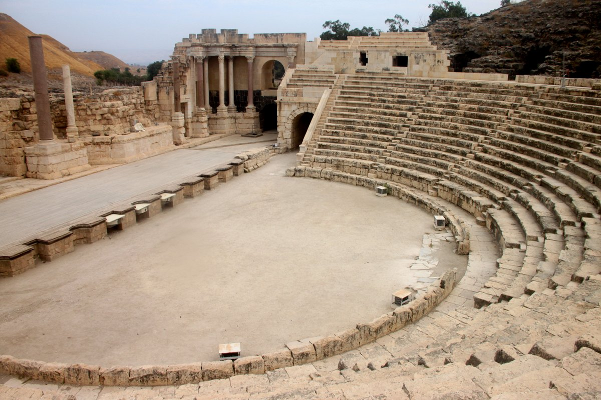 Roman theatre in Israel